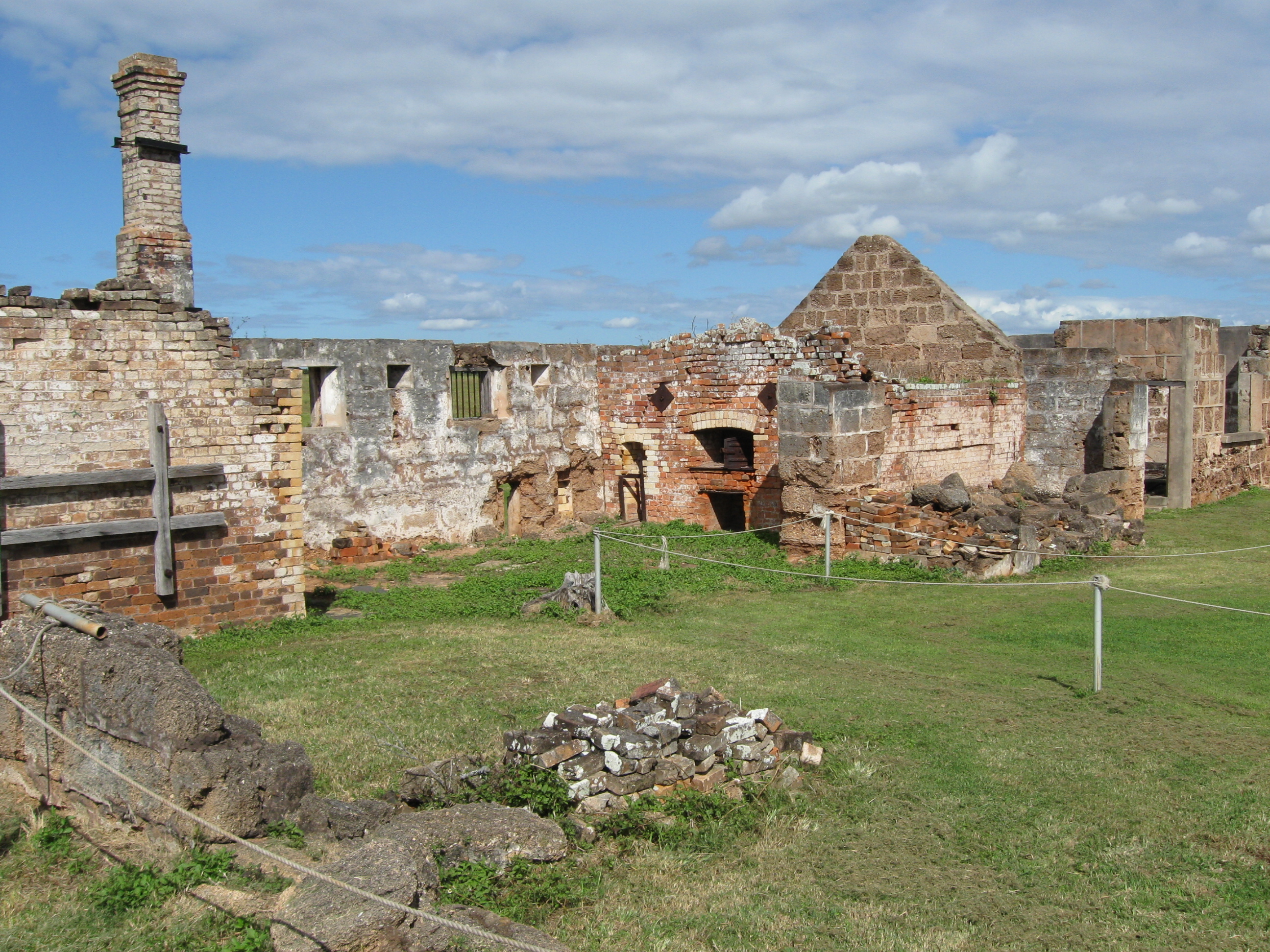 View of the Butchery and Bakery areas at St Helena, Queensland, Australia